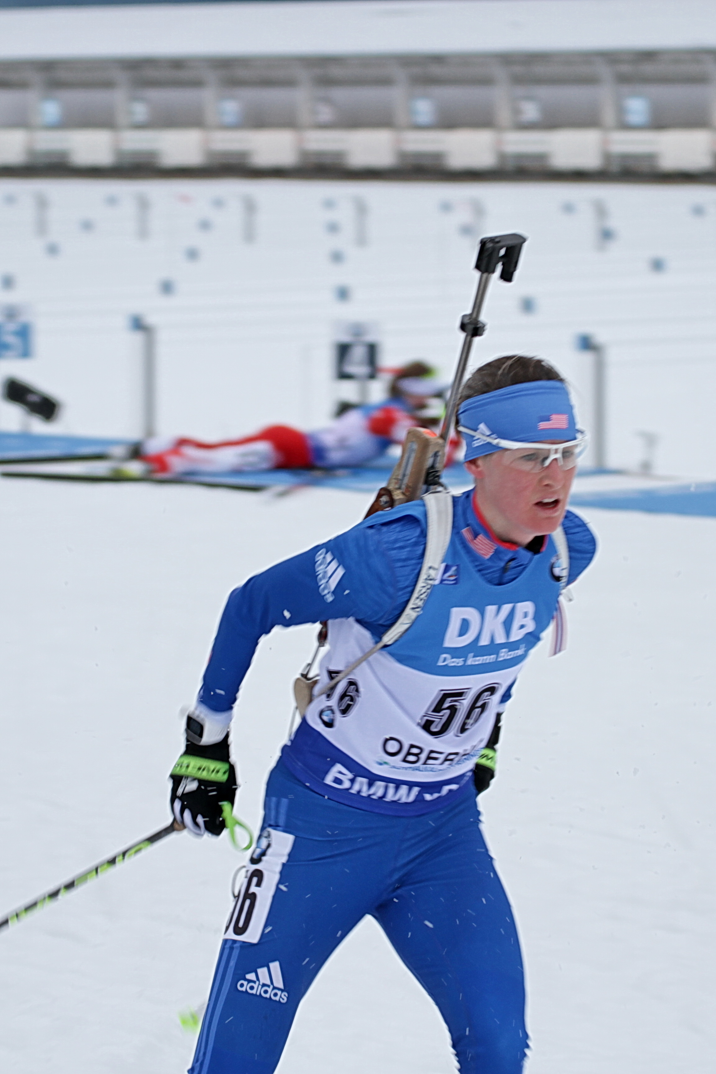 2018 Oberhof Biathlon World Cup - Sprint Women